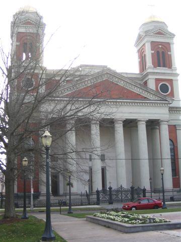 Cathedral-Basilica of the Immaculate Conception in Mobile, Alabama.